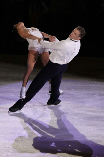 Jamie Sale & David Pelletier perform an ice dancing lift with him in an outside spread eagle position at the 2009 Stars On Ice show in Halifax, Nova Scotia.